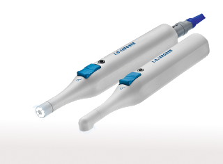 Dr. ScharpCam IntraOral Camera by I.C. Lercher